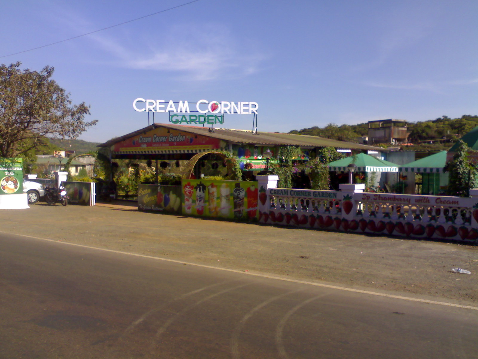 The best place to have "Strawberries with Cream" in Mahabaleshwar